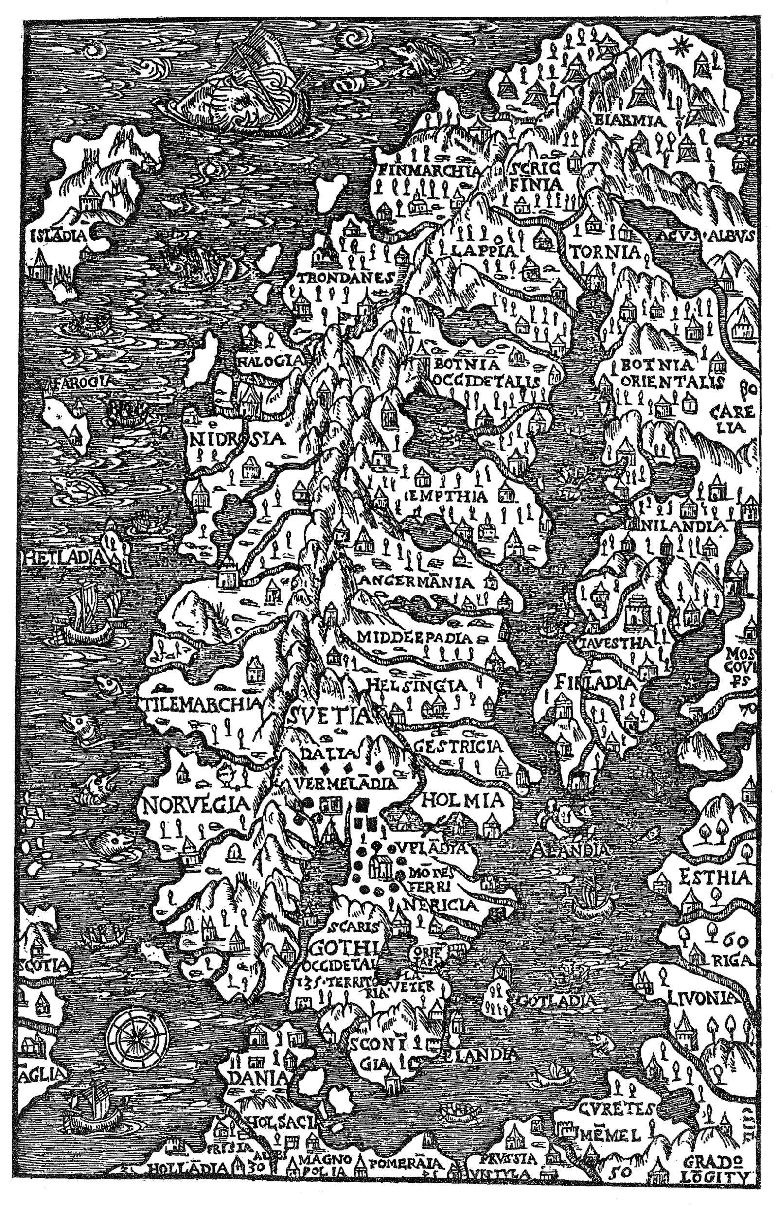 Map of Scandinavia